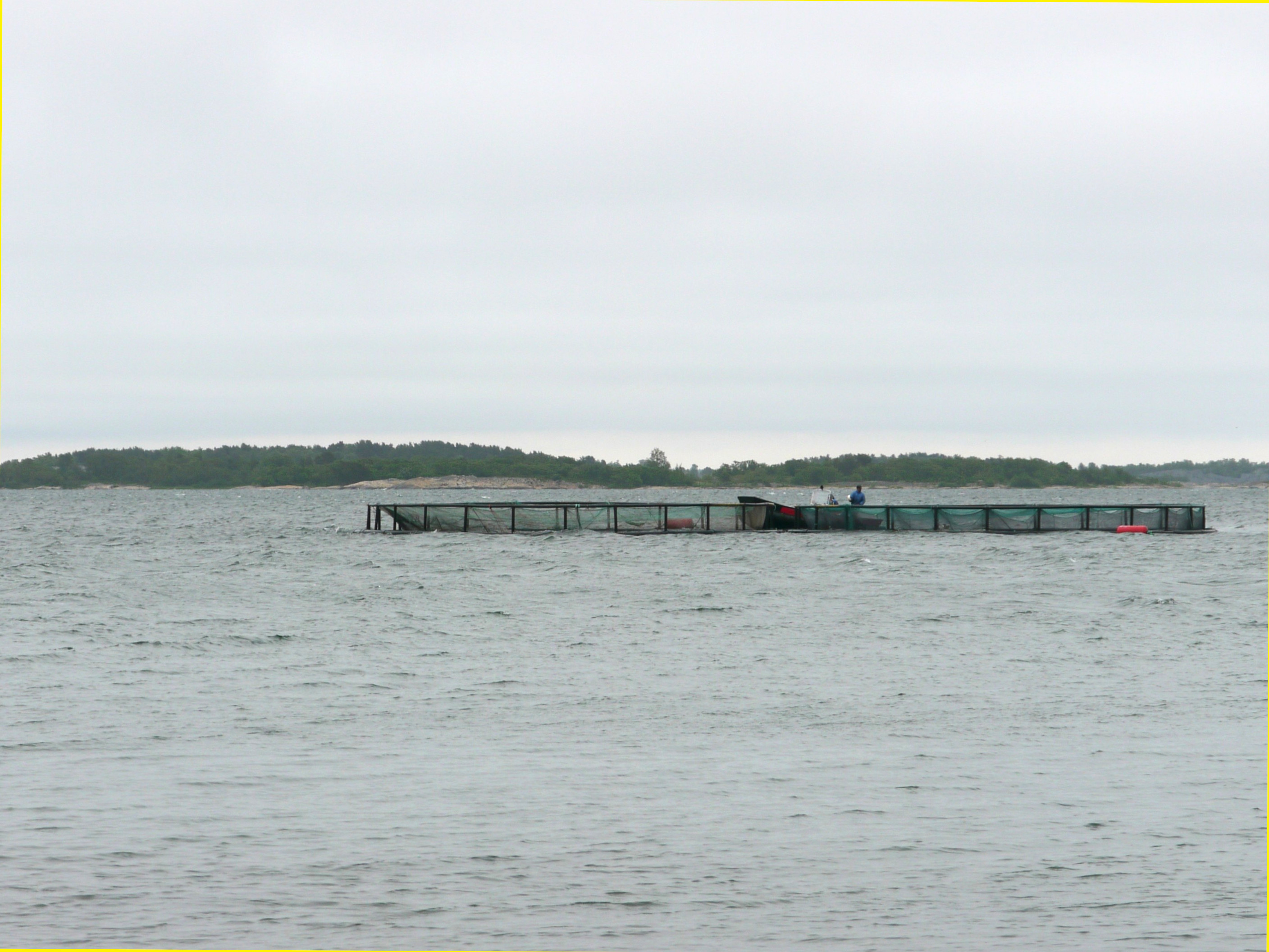 Fish farm in the waters just north of Kumlinge, Åland, Finland